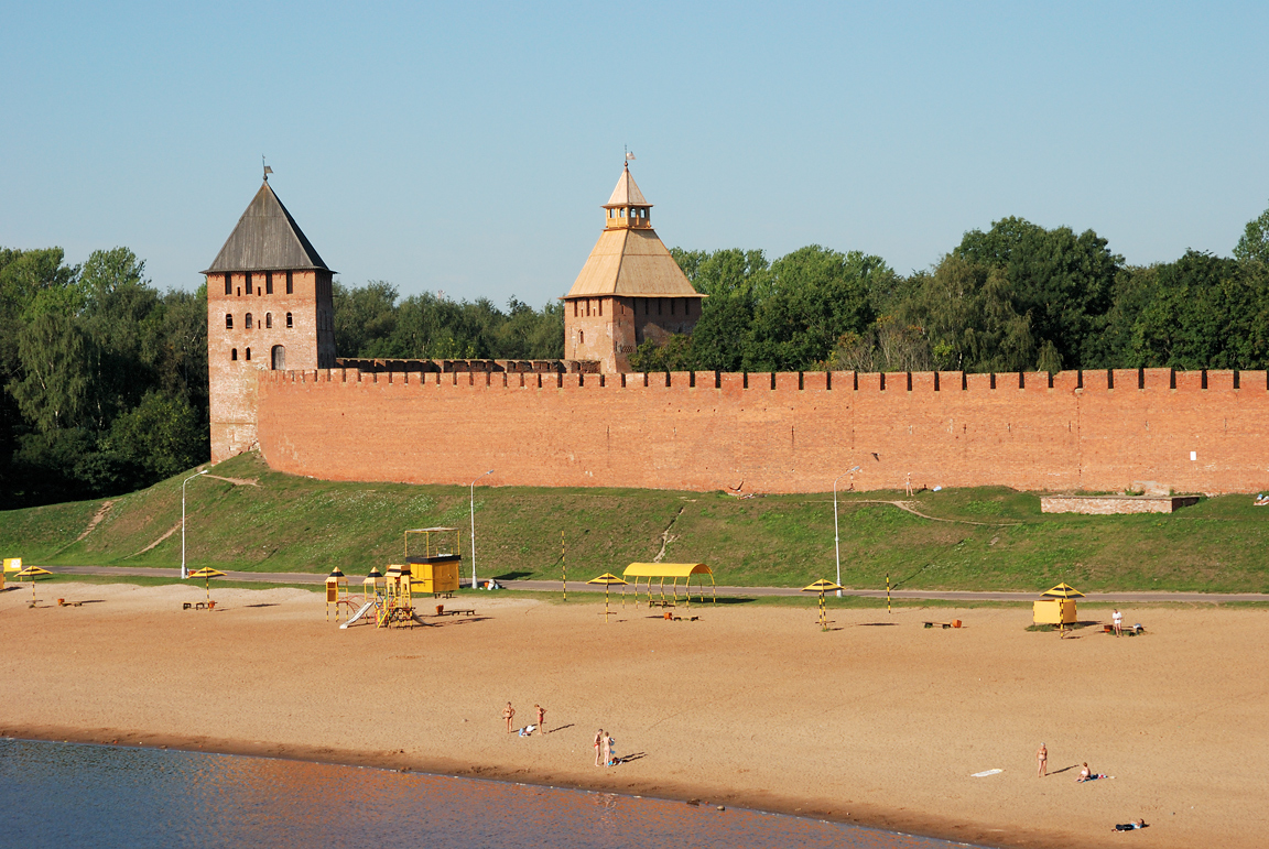 Two southern-most towers of Novgorod kremlin, seen from the middle of the pedestrian bridge